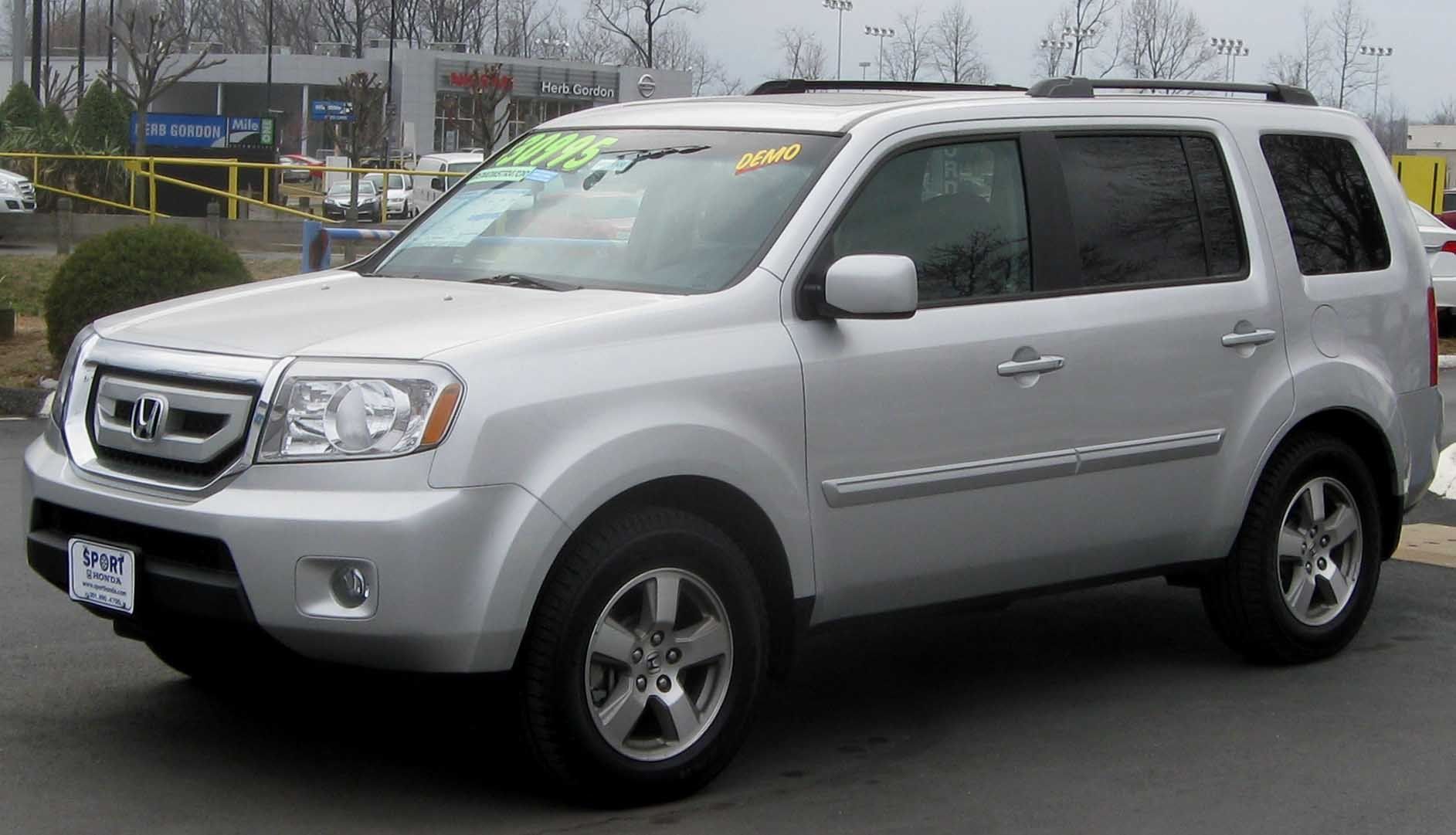 2009 Honda Pilot photographed in Silver Spring, Maryland, USA.